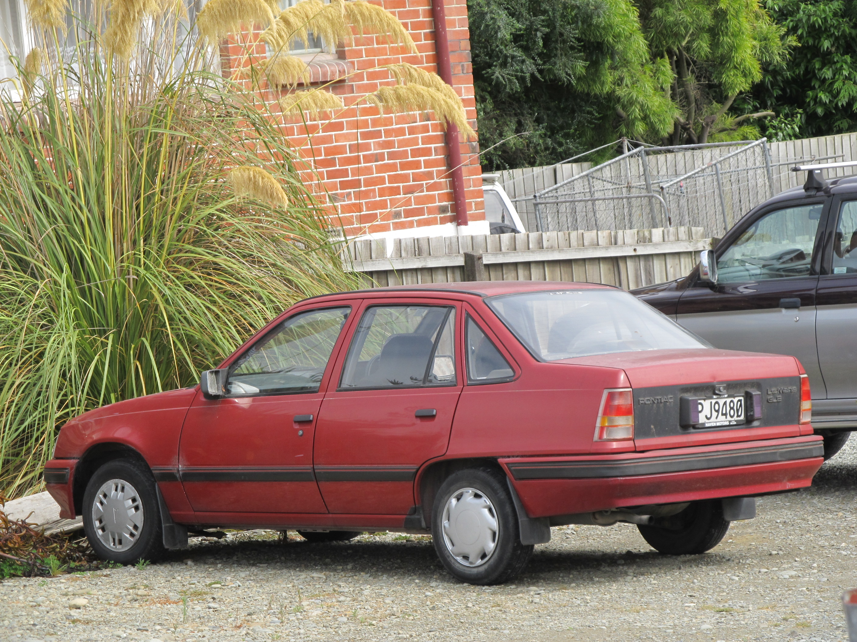 PJ9480 Here in NZ, we got the MkII Vauxhall Astra as the Korean Pontiac Le Mans. There are still a few about, but not as many as there used to be. Seen in suburban Timaru, NZ.